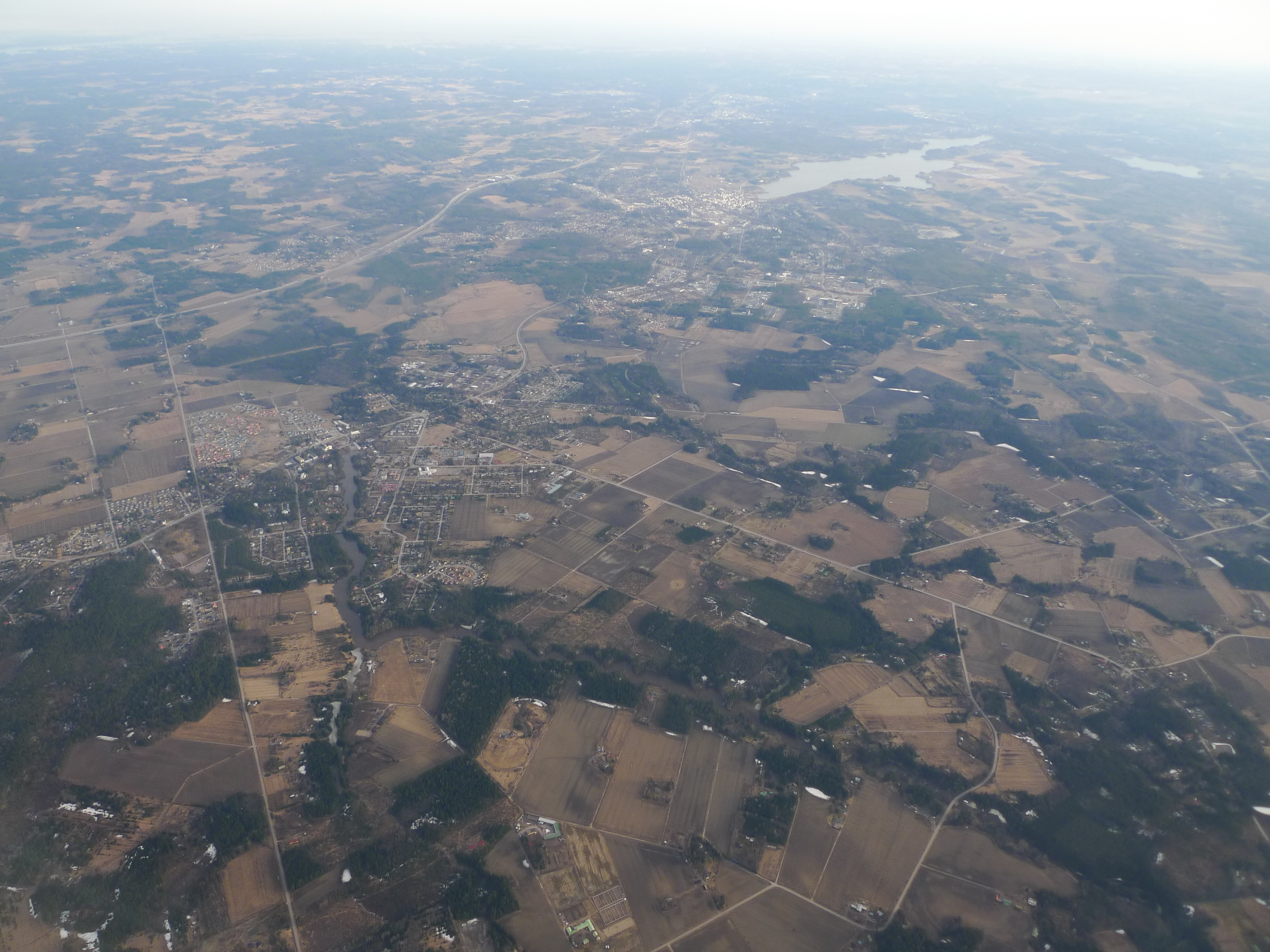 Jokela, Järvenpää, Lake Tuusula. Photo taken from airplane window.